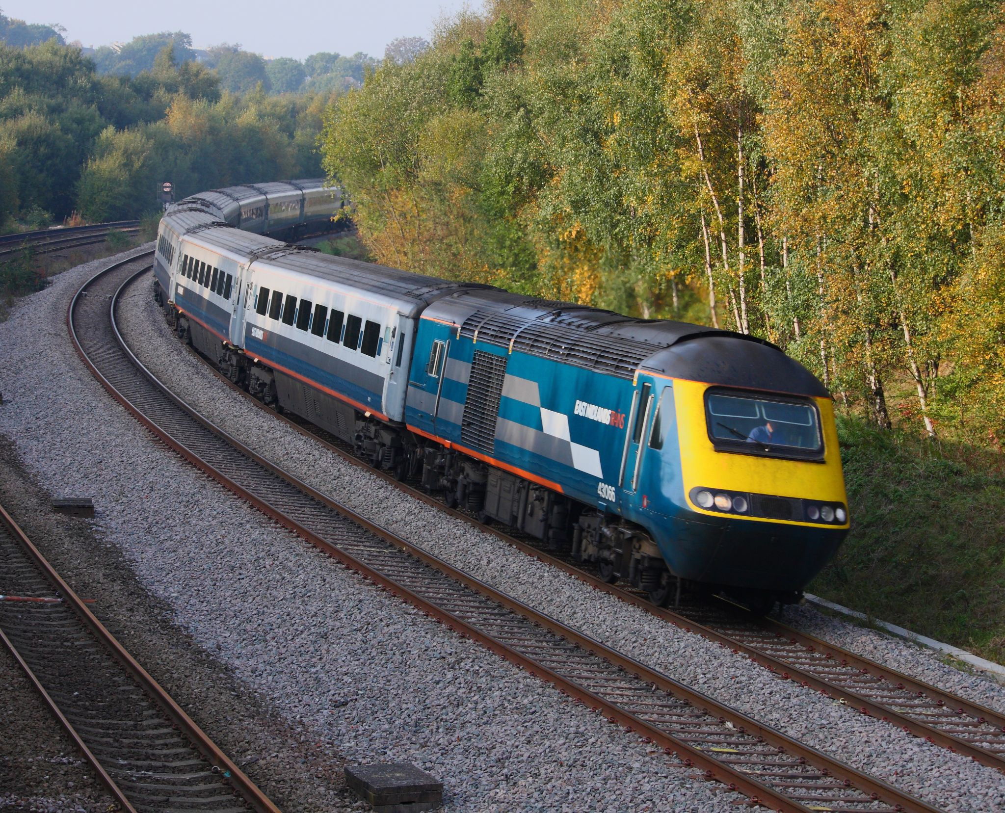 43066 Claycross